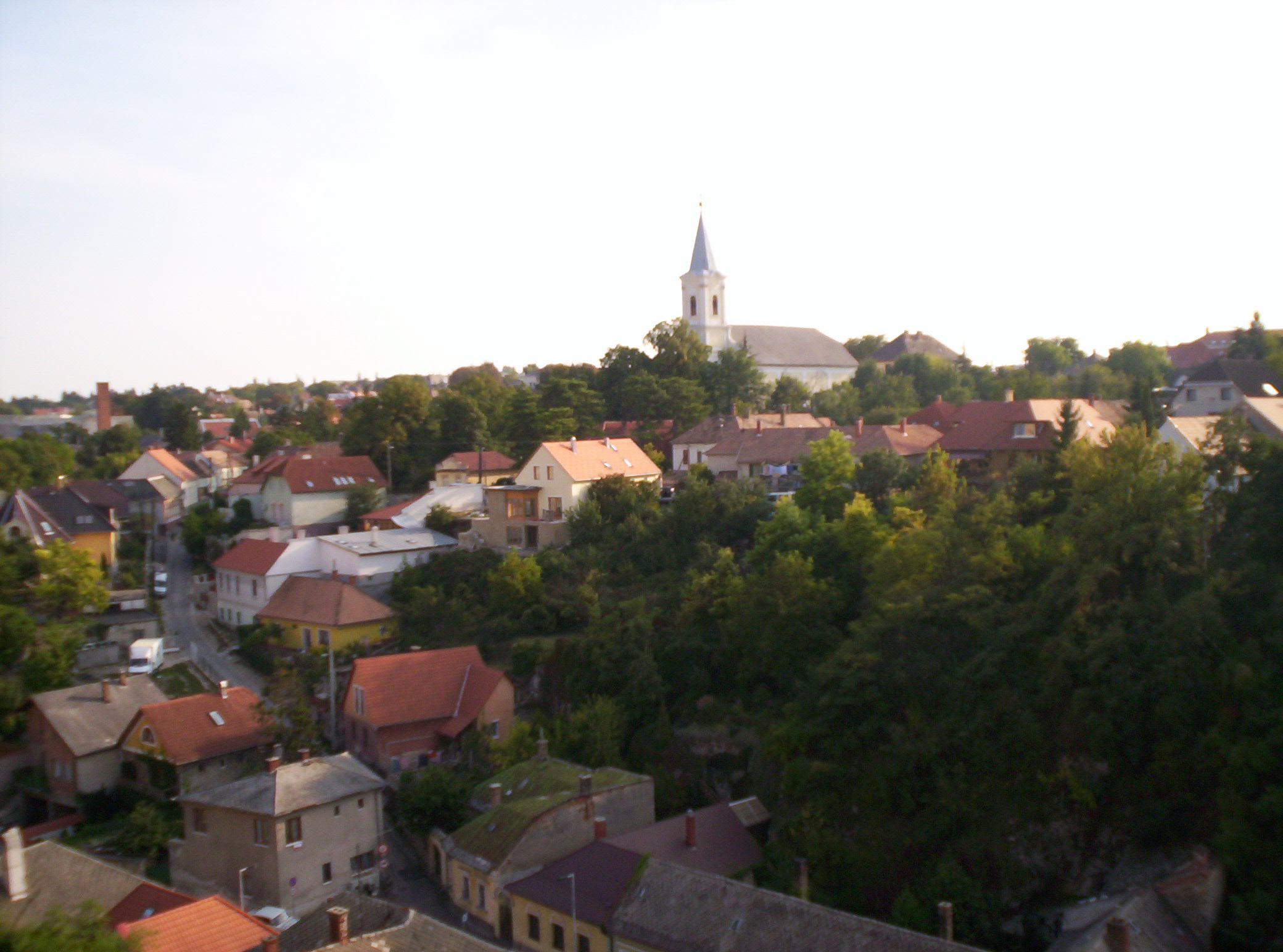 Quarter "Jeruzsálemhegy" in Veszprém